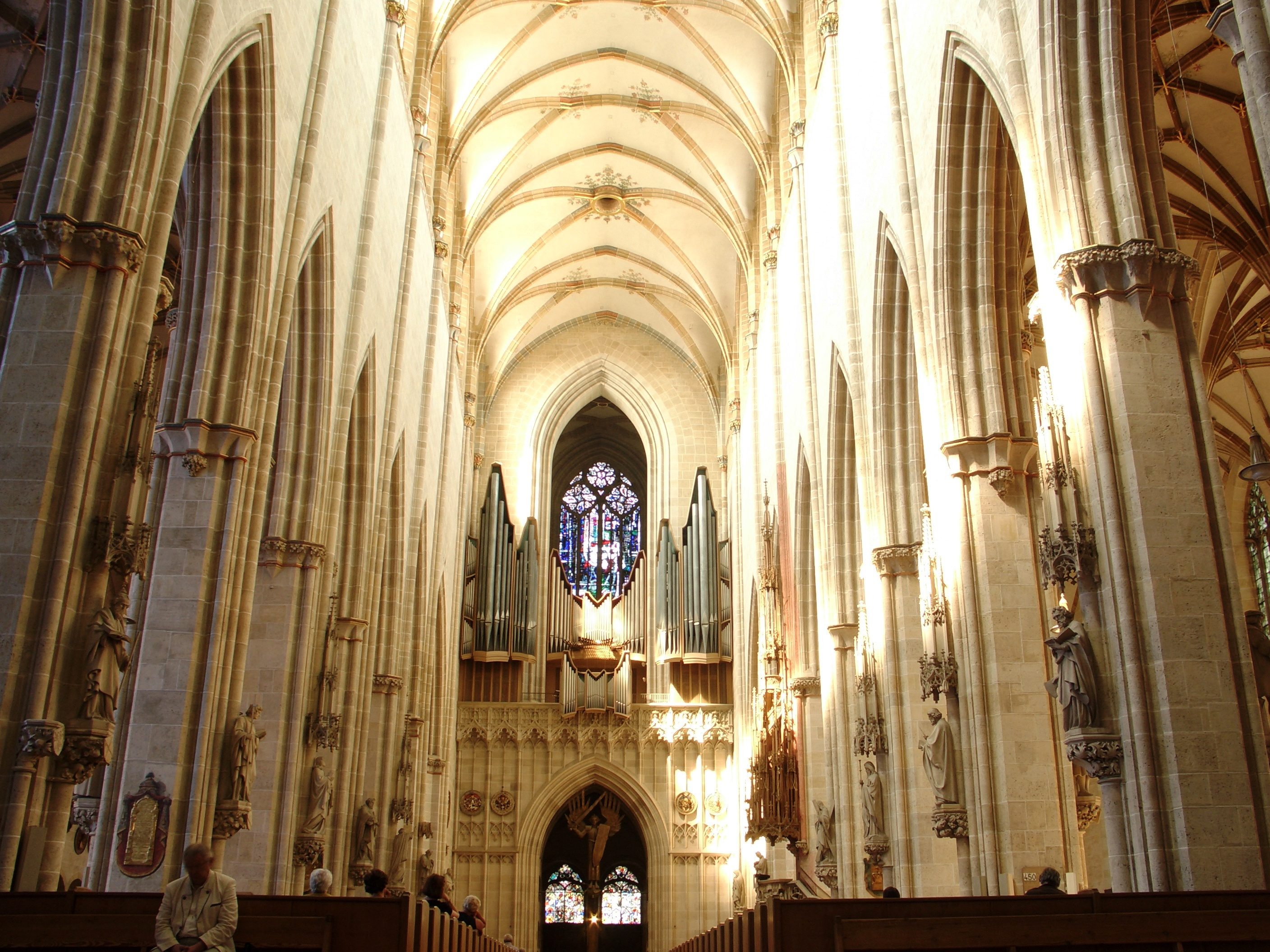 Catedral d'Ulm - Interior